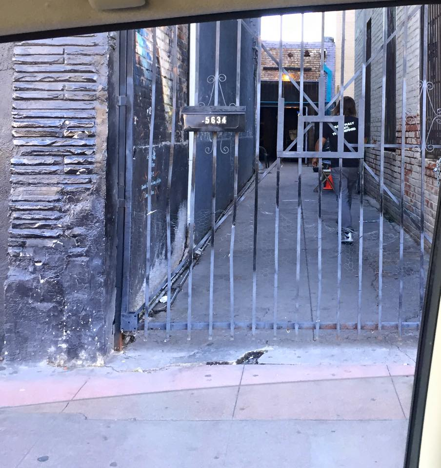 Picture taken from Santa Monica Blvd. of Quality Studios (2015)